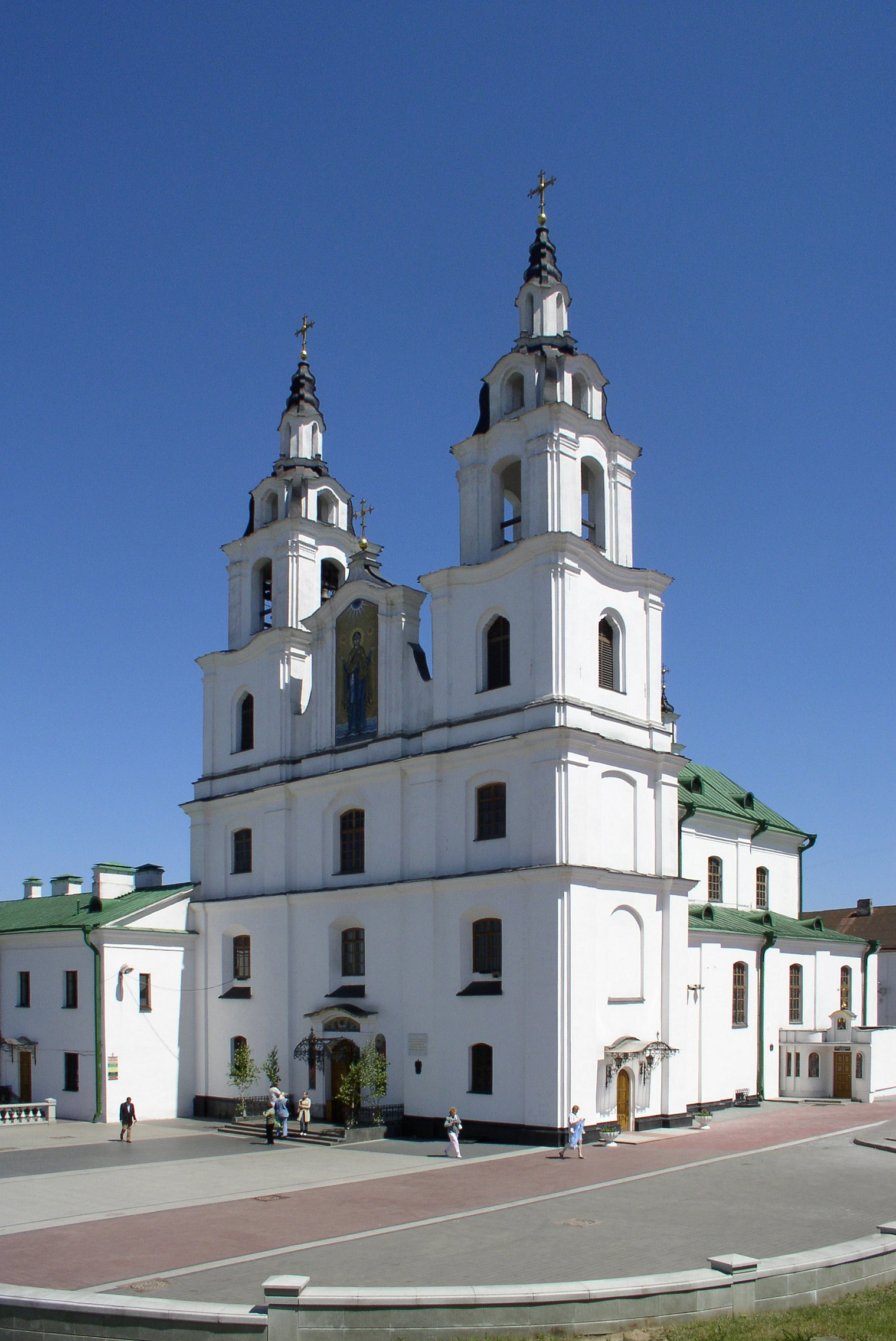 Cathedral of Holy Spirit, Minsk, Belarus. Беларуская (тарашкевіца): Катэдральны сабор Сьвятога Духа, Менск, Беларусь.